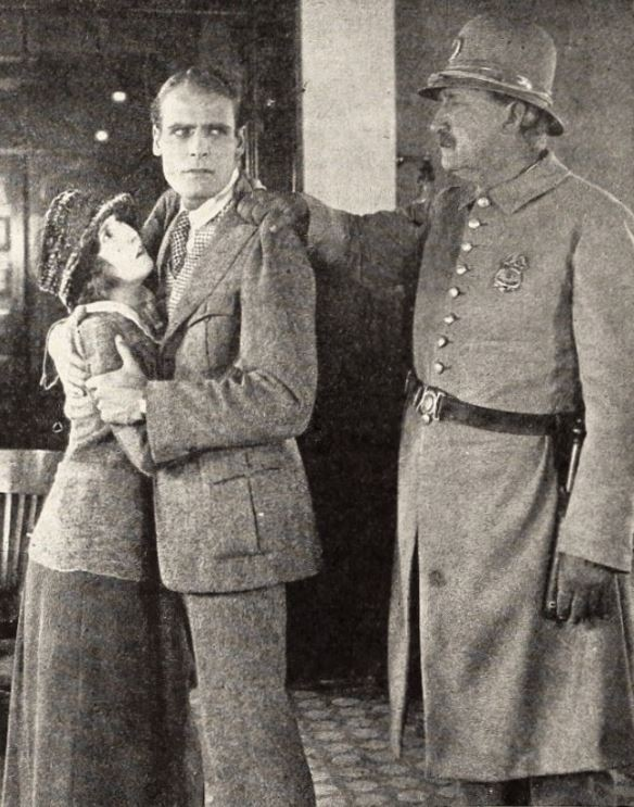 Still from the American romantic drama film The Ghost Patrol (1923) with Bessie Love, Ralph Graves, and George Nichols, on page 446 of the January 27, 1923 Exhibitor's Trade Review.